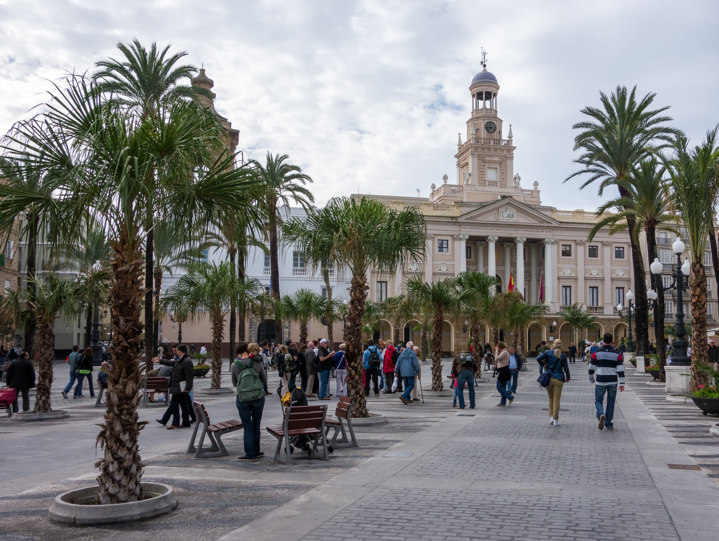 Plaza de San Juan de Dios (Cadiz, Spain)